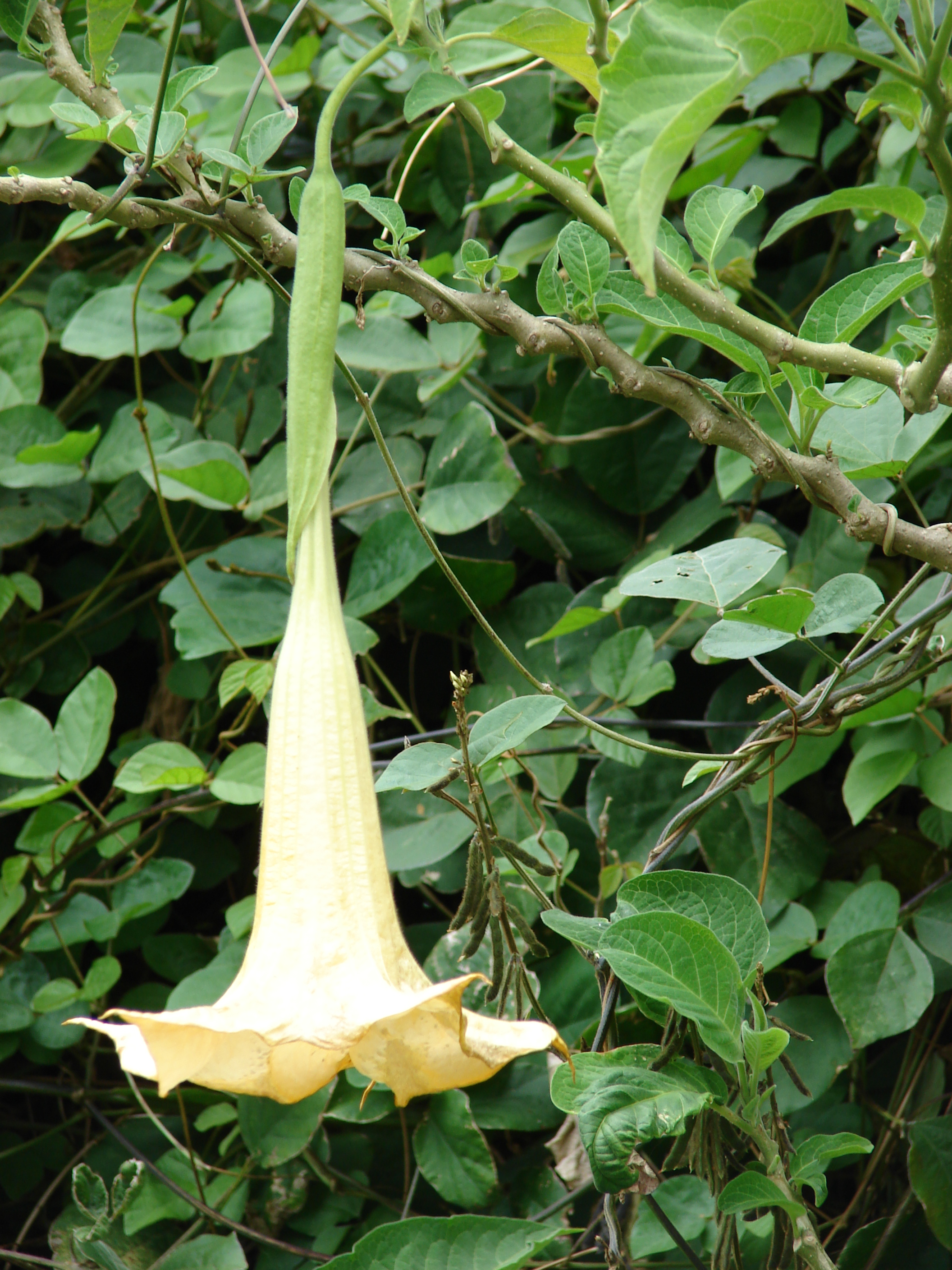 Brugmansia x candida (flower). Location: Maui, Kula